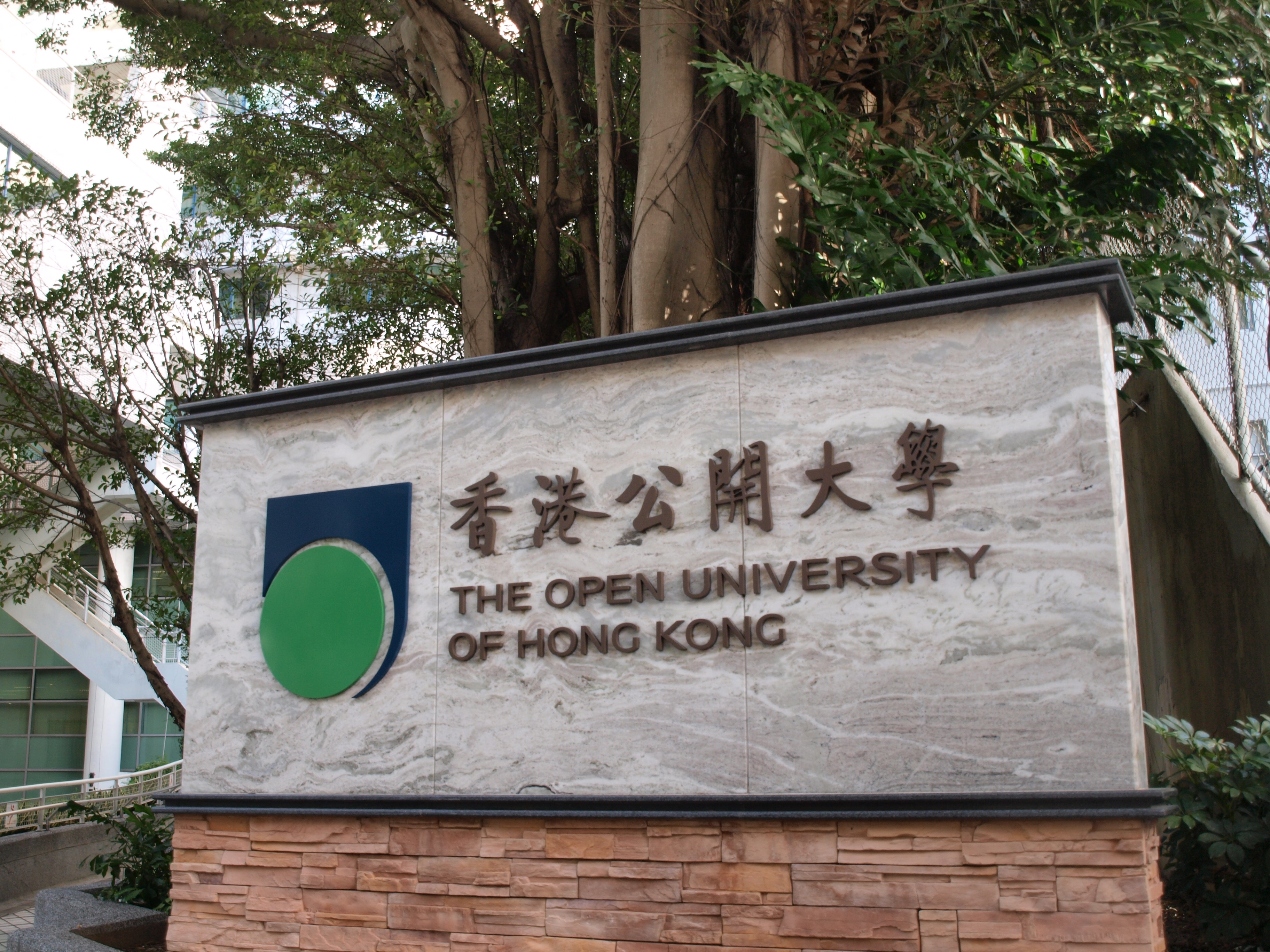 OUHK Banner in Main Campus.